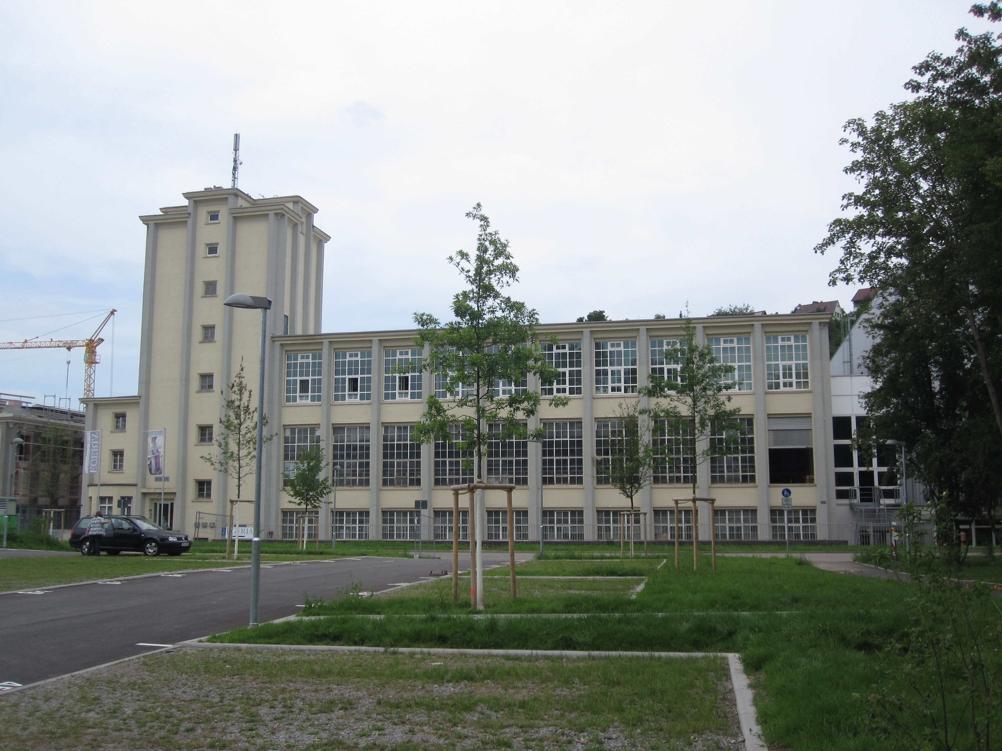 Egeria factory in Tübingen